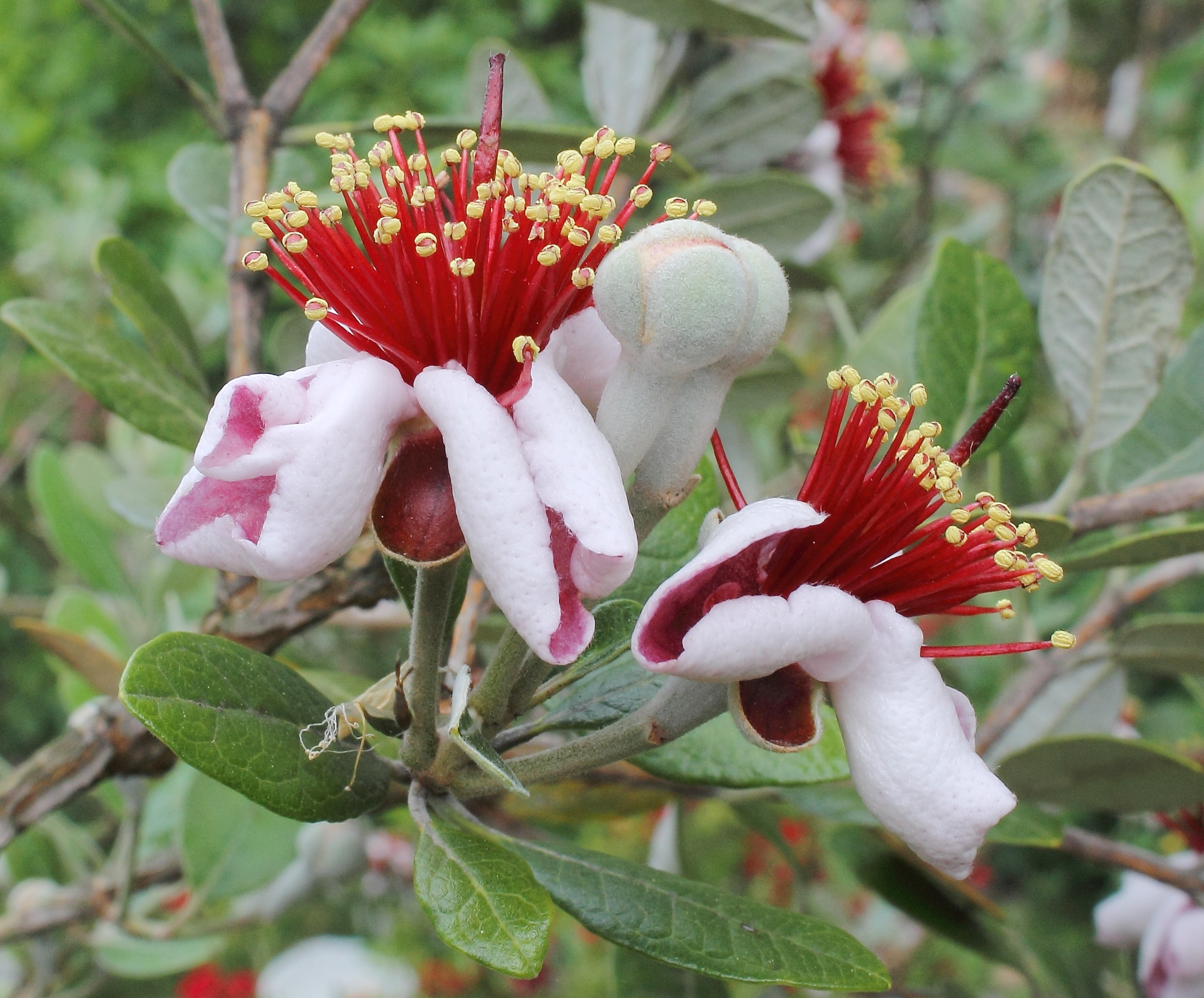 Feijoa flowers. Sochi, May.